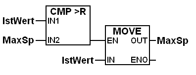 function block language, search for maximum